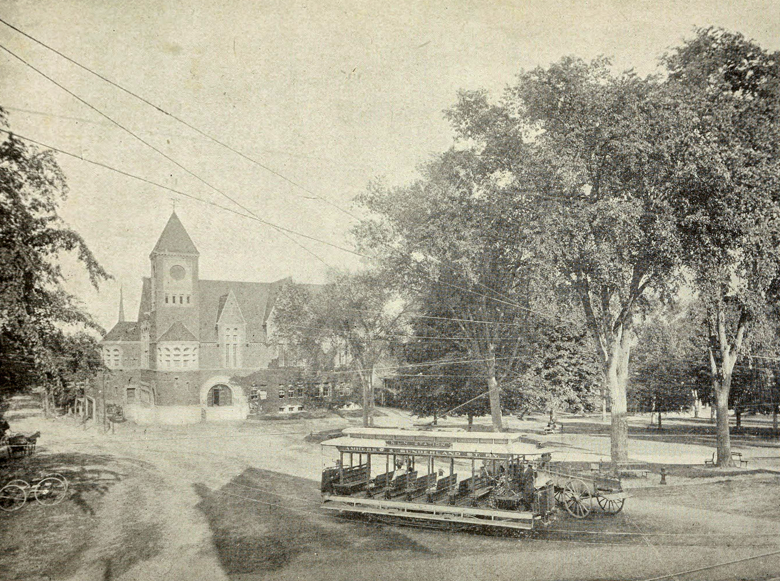 An Amherst & Sunderland Street Railway Company car passes Amherst Center and Town Hall in 1903, three years prior to the company's lease and subsequent acquisition by the Holyoke Street Railway.